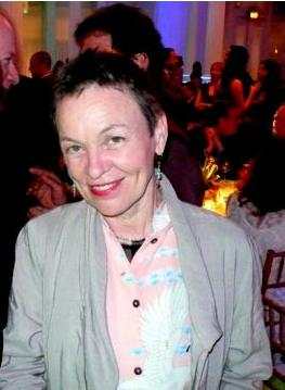 Photo by D. Vatsky Other version : Image:The Kitchen Benefit, Honoring Laurie Anderson cropped.jpg